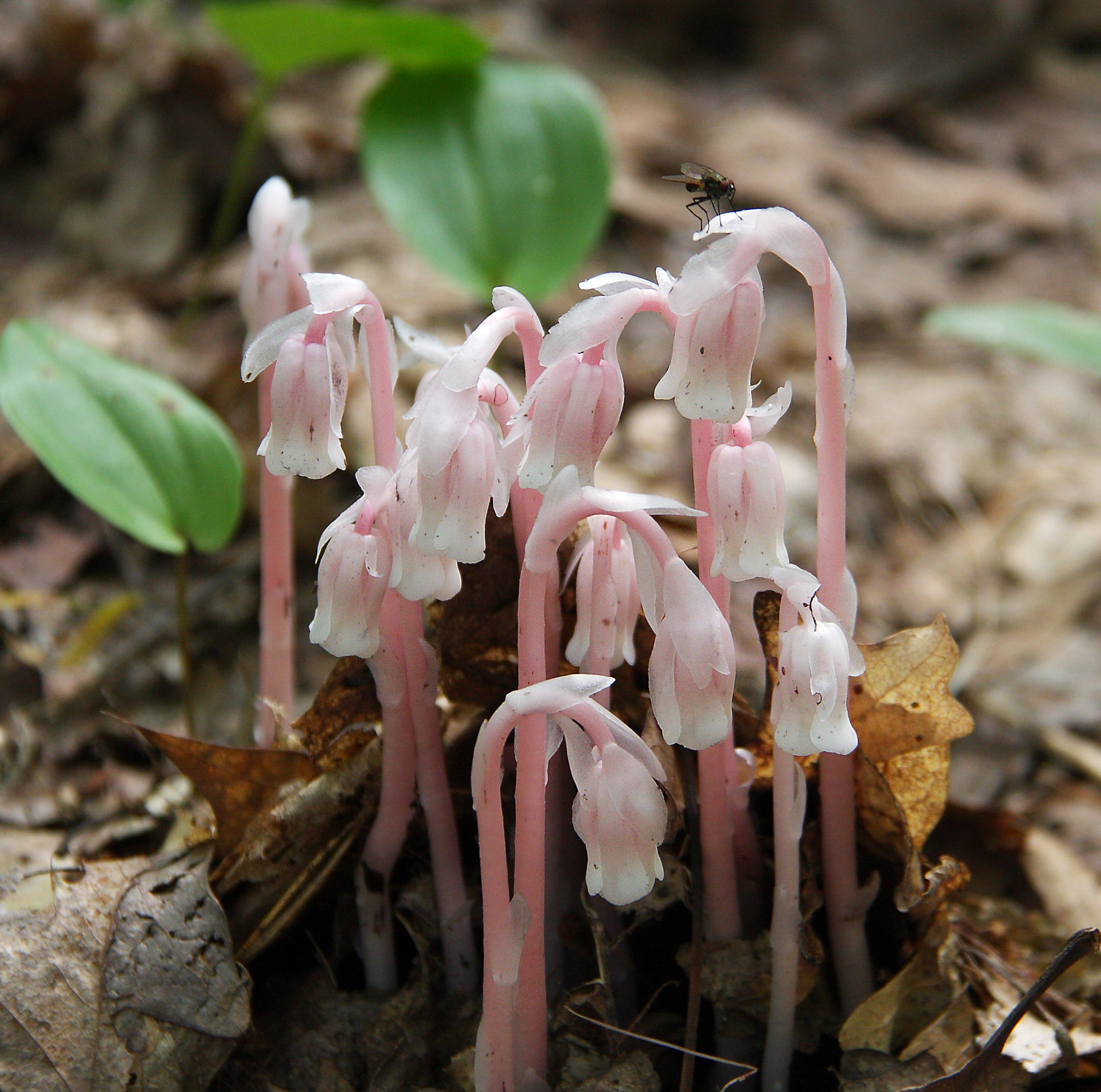 Photo of pink Indian Pipes taken in in the Exeter Town Forest, Exeter, NH